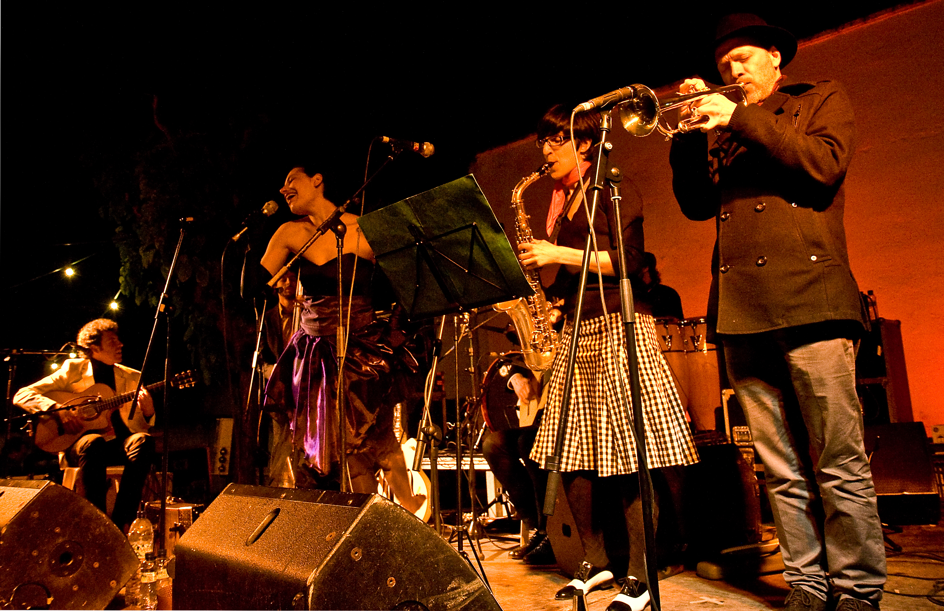 Concert of Giulia y los Tellarini in 11th FiM-Fira de Música al Carrer de Vila-seca.